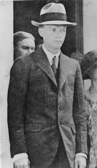 Col. Chas. Lindbergh and his mother photographed with the President and Mrs. Coolidge Lindbergh, Charles A. (Charles Augustus), 1902-1974.